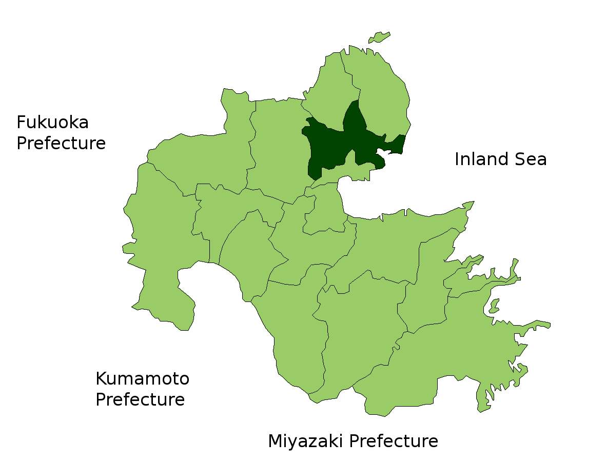 Location Map of Kitsuki in Oita Prefecture, Japan